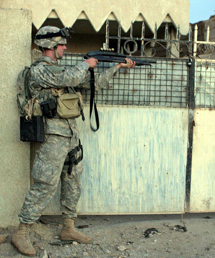 PFC Steven Dale Green, a United States Army soldier and war criminal, shown shooting the lock off an abandoned Iraqi house, in a December 2005 news-release photo.